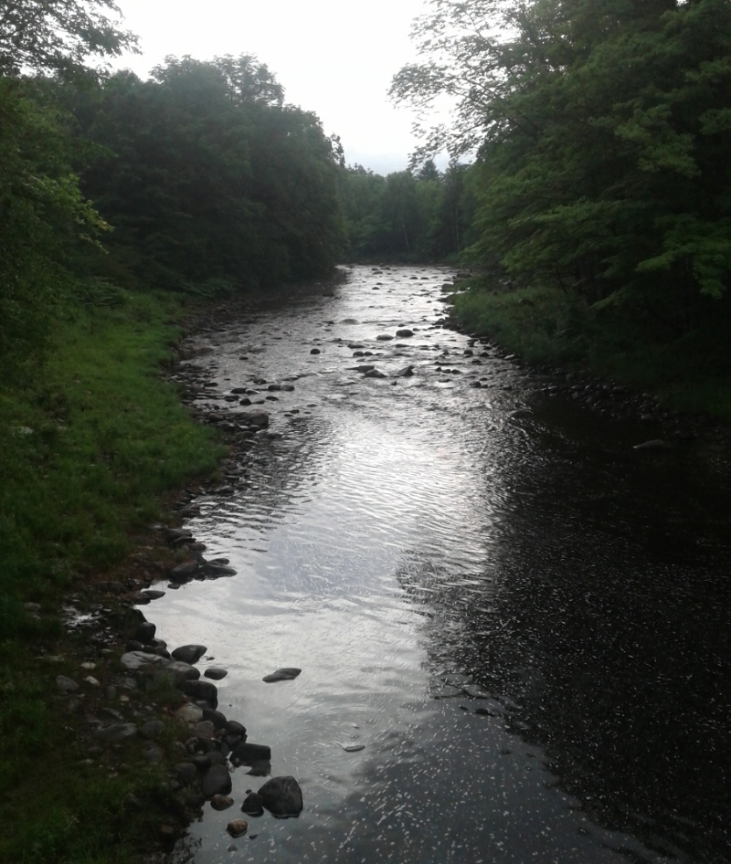 East Canada Creek upstream of Emmonsburg Road. Taken July 2019.